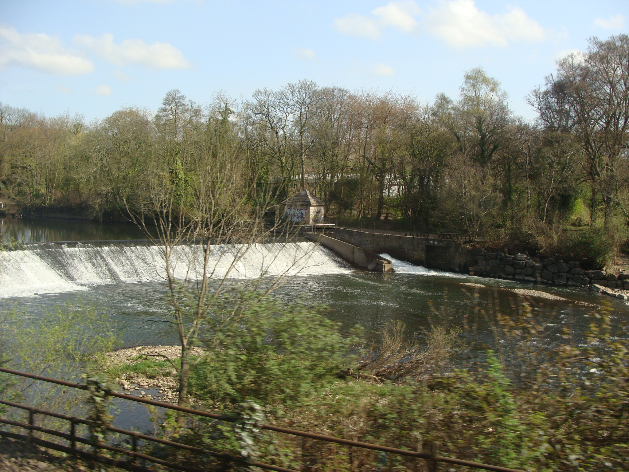 Radyr Weir taken from the train